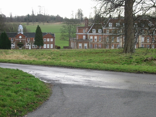 Waldershare House Waldershare House is a very elegant Palladian mansion of the Georgian era built with classic symmetry. Surrounded by attractive parkland complete with avenue of limes, spreading chestnut and beech. Look out for the ornate square folly which is typical of the period. (Thanks to for text)